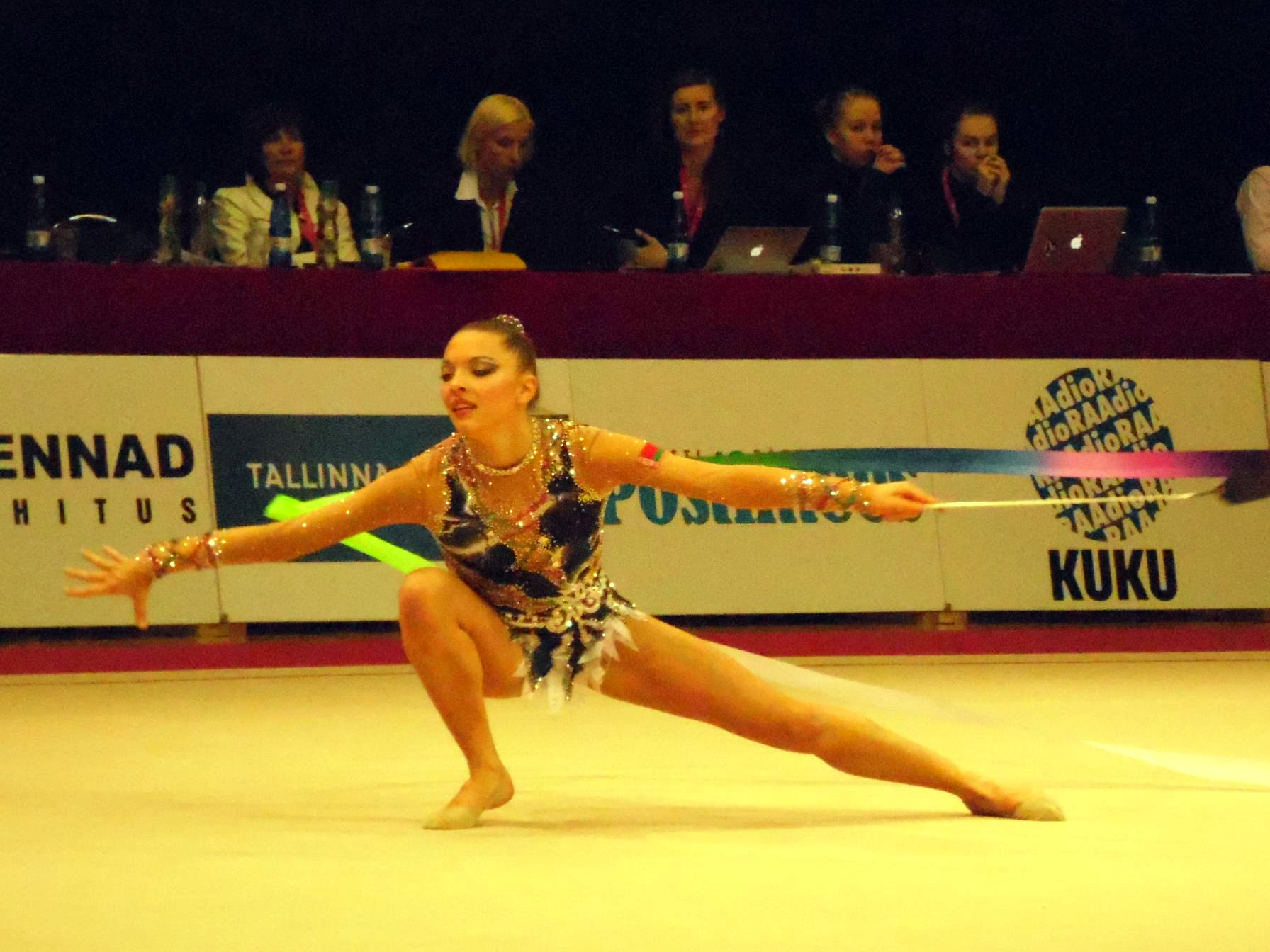 miss valentine 2013 a le coq sportihall